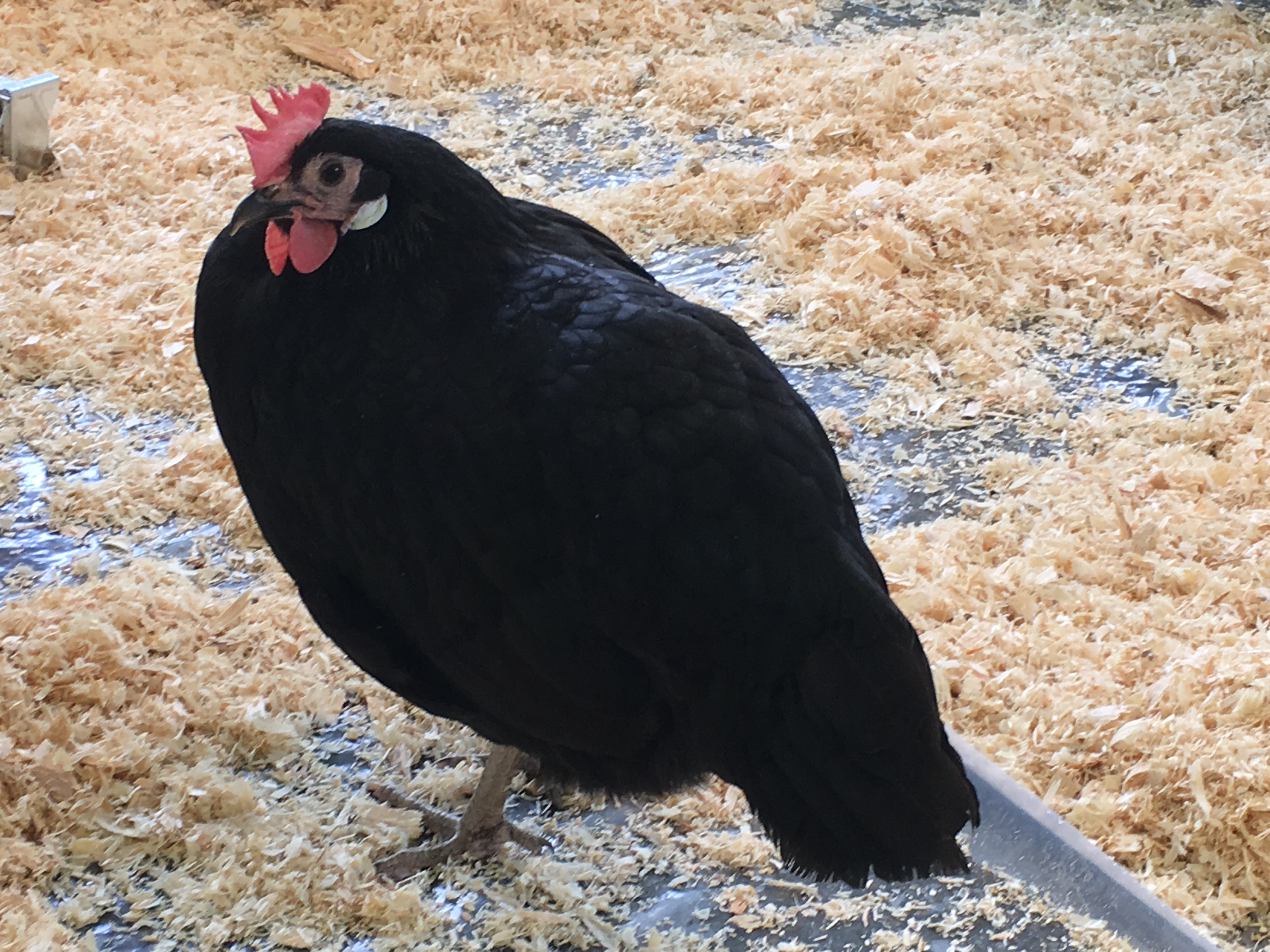 Valdarno hen at the Rural Festival, Gaiole in Chianti, Tuscany, Italy, 17–18 September 2016